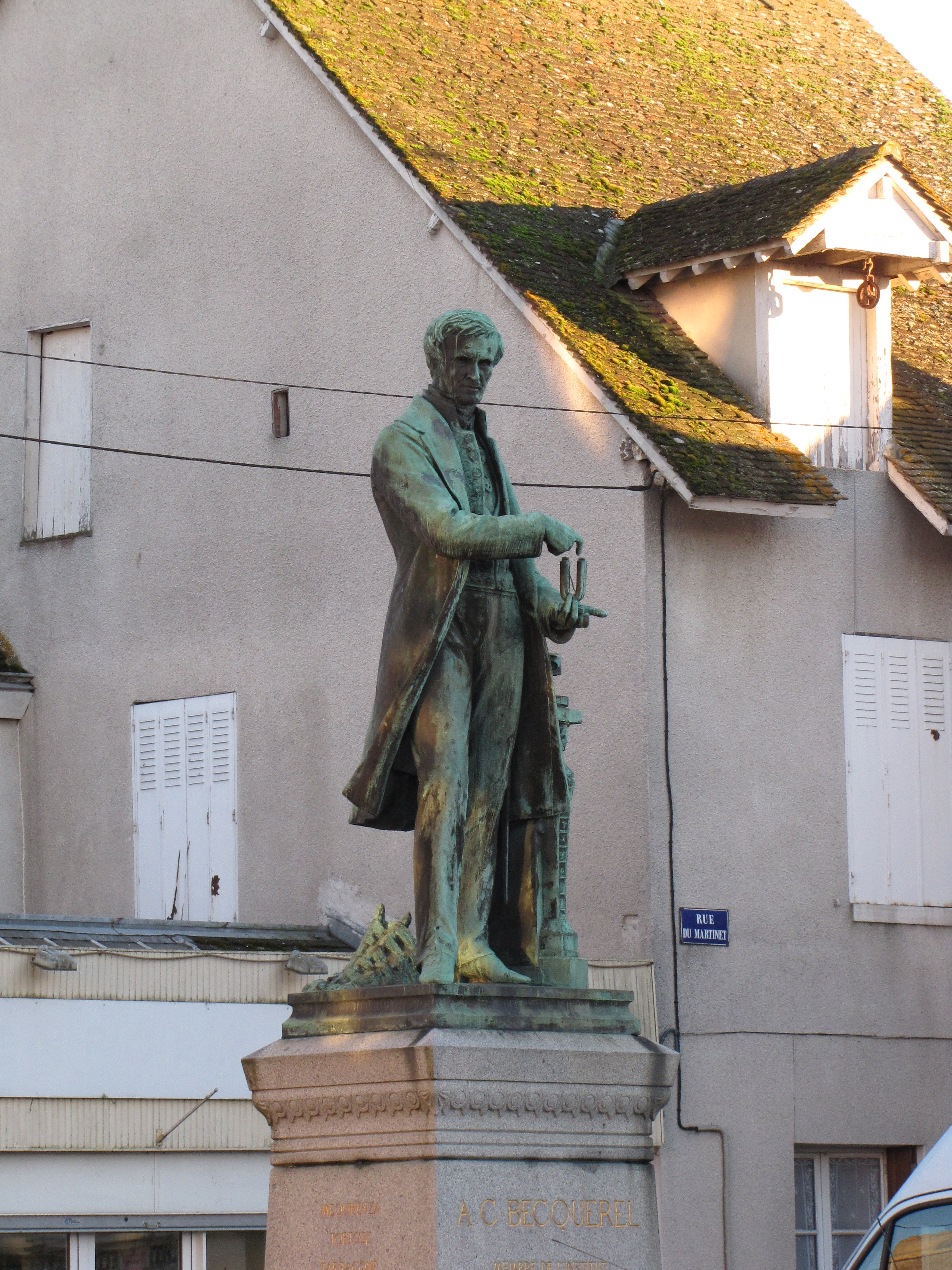 Châtillon-Coligny, Loiret, Centre region, France. Statue of Antoine César Becquerel (1788-1878) who was born in this town. The statue is set in, of course, Place Becquerel immediately outside the old "Porte des Bourgeois", a town gate on the south of the old town.